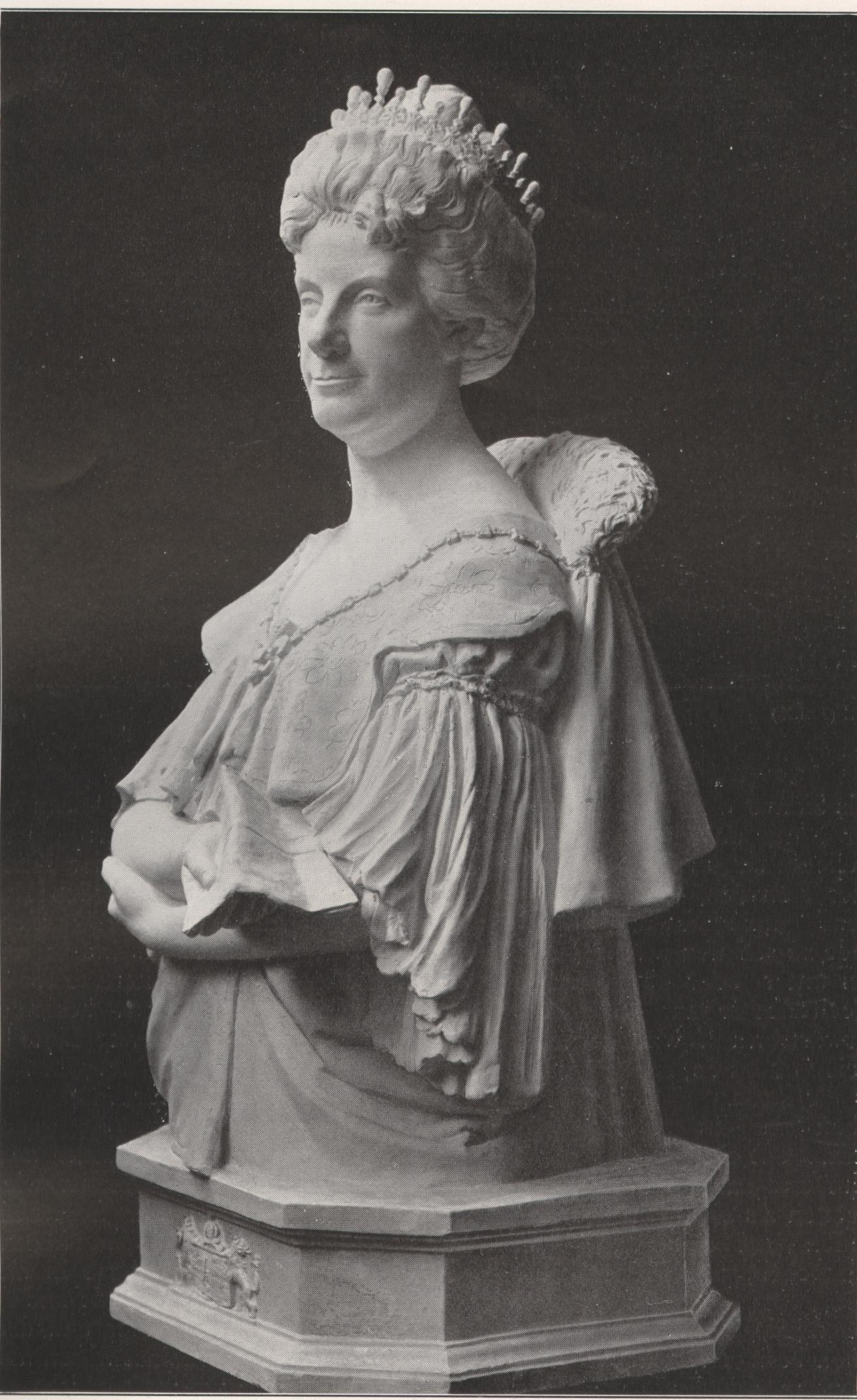 Photo of a bust of Maria de la Paz.